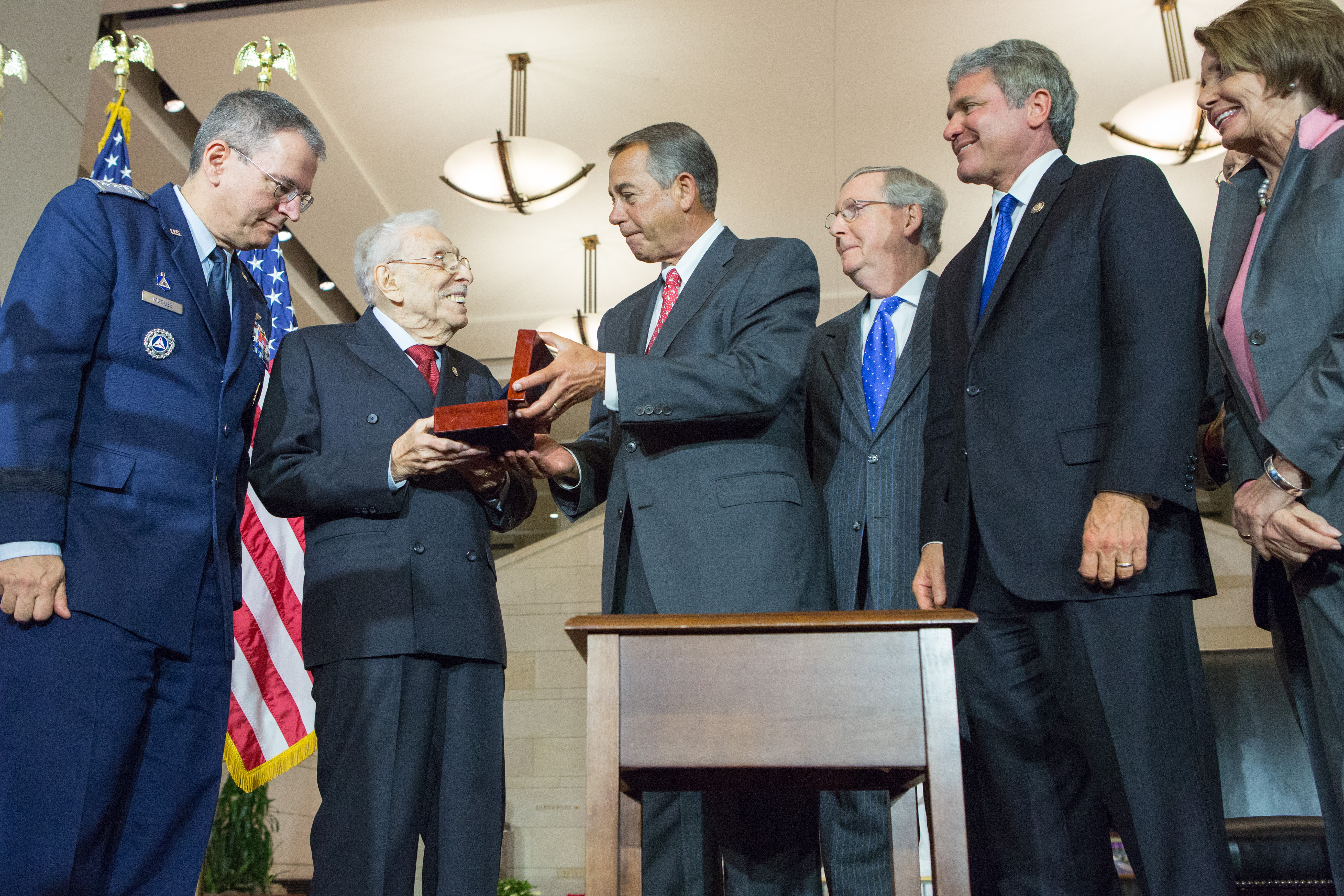 From left to right: Major General Joseph R. Vasquez, Former-Congressman Lester L. Wolff, Speaker John Boehner (OH-8), Senate Minority Leader Mitch McConnell (K), Representative Michael McCaul (TX-10), and House Minority Leader Nancy Pelosi (CA-12) -- December 10, 2014. (Official Photo by Caleb Smith)